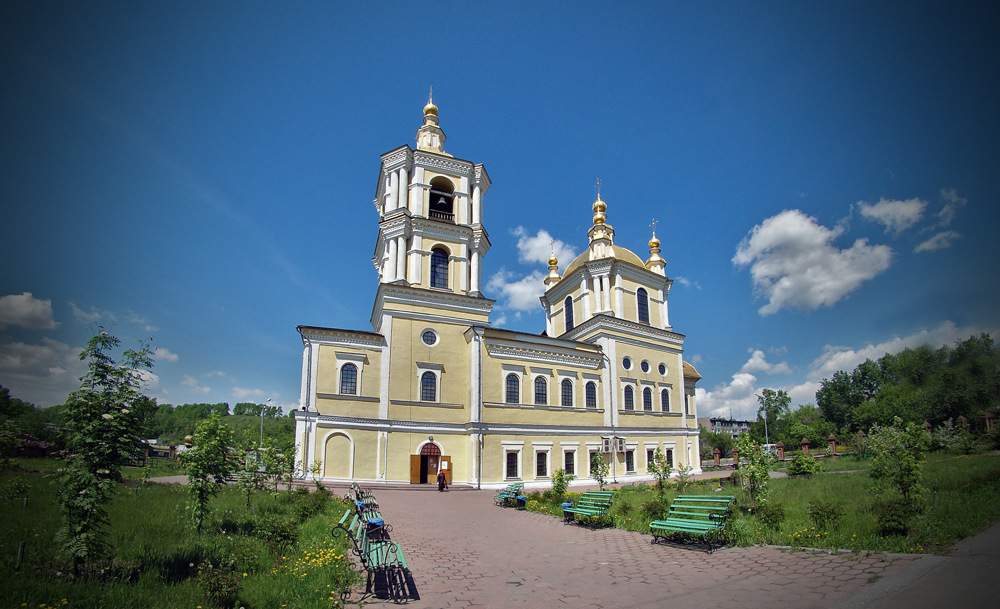 Spaso-Preobrazhensky (Transfiguration) Cathedral (Novokuznetsk, Kemerovo region, Russia)